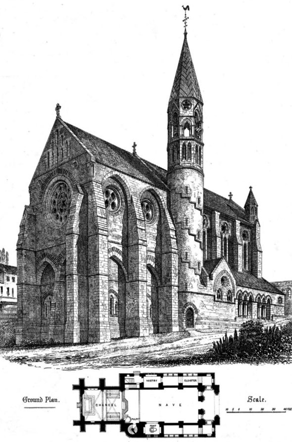 Illustration of the Crimean Memorial Church